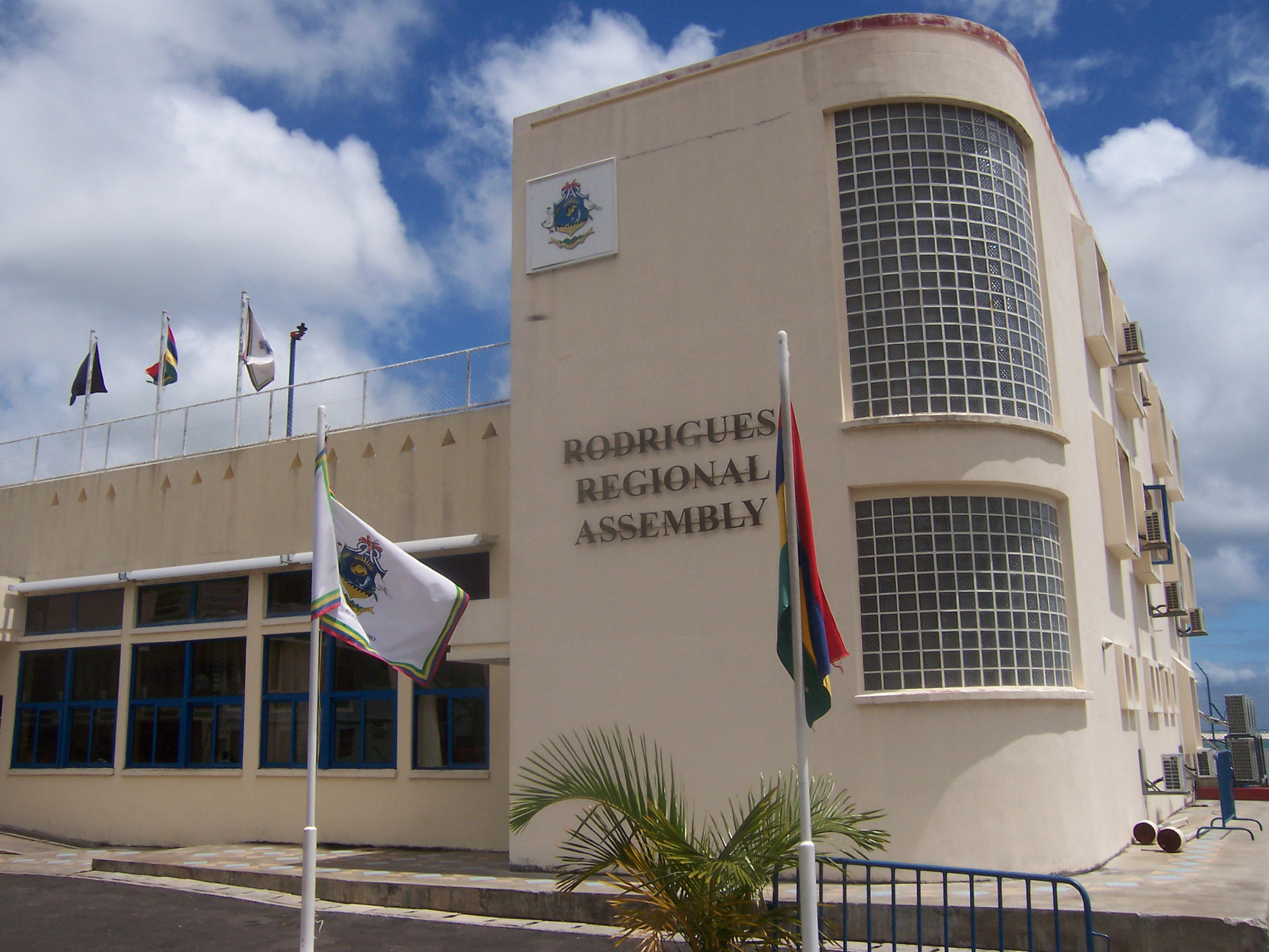 The building of the Rodrigues Regional Assembly